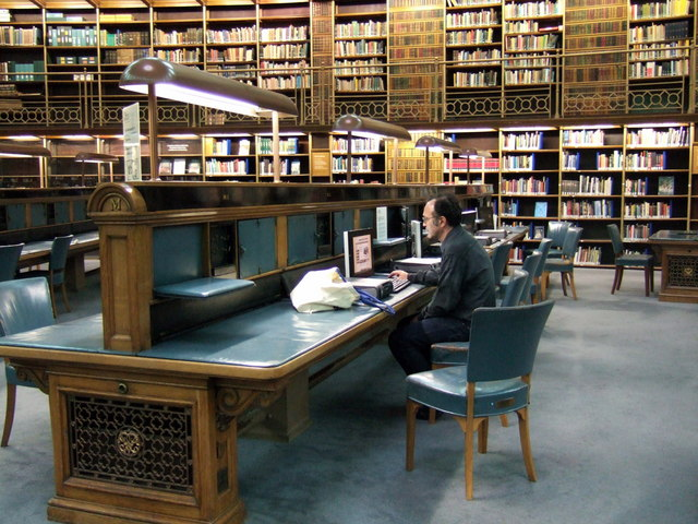 The Reading Room at the British Museum Generations of researchers, writers, thinkers and students sat at these leather-covered desks to use the incomparable facilities of the British Library, from 1857 until 1997 when the books were moved to the new premises in Euston Road. The Reading Room remains available as a public resource with reference books on the open shelves and terminals for online research. Listed on the wall are the names of many of the most celebrated library-users - from anarchists to zoologists.